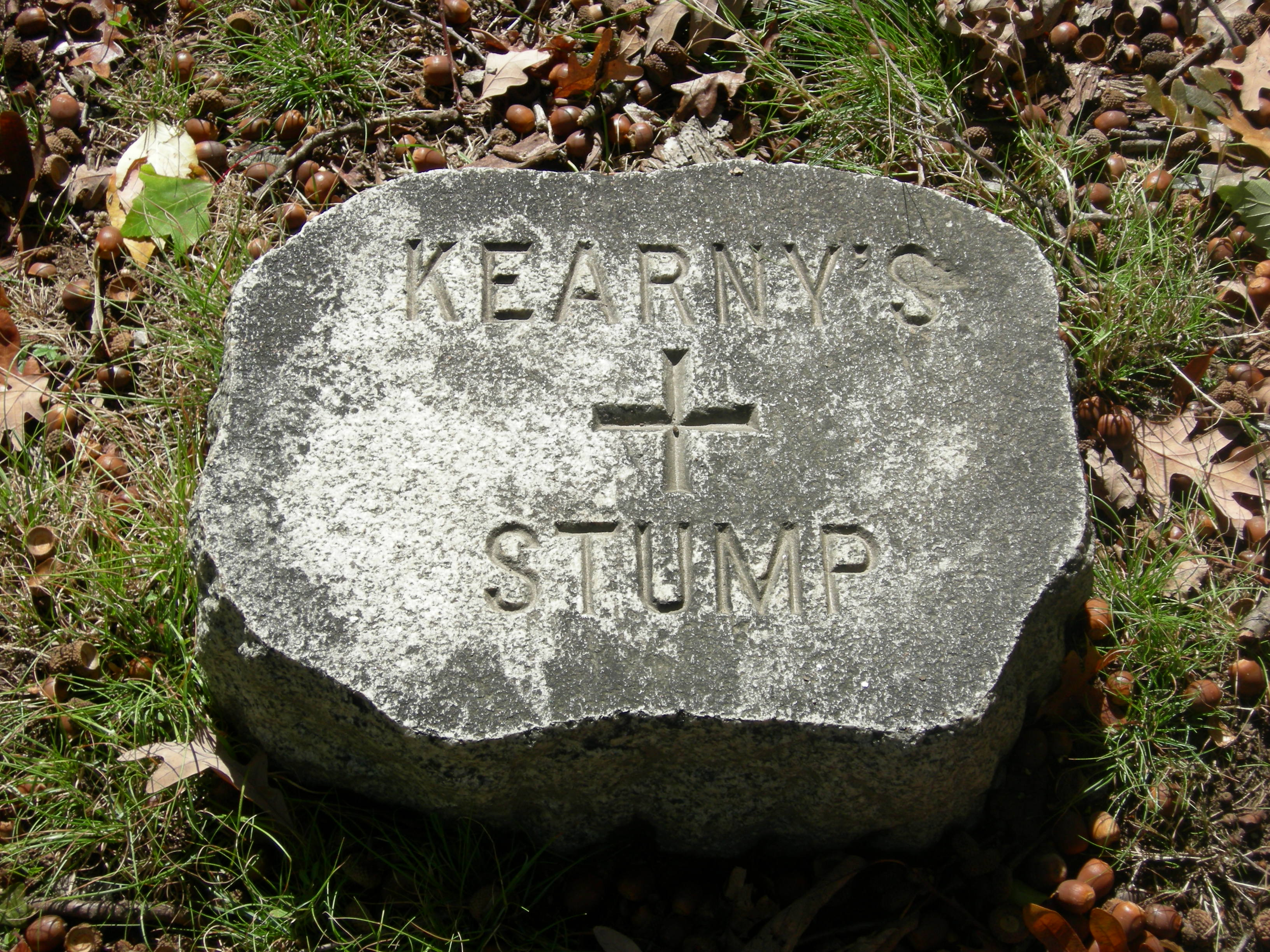 Kearny's Stump at Ox Hill Battlefield Park, in Fairfax, Virginia, USA. This was supposedly the location where Philip Kearny, a Union general, was killed during the Battle of Chantilly (or Ox Hill) during the Civil War. He is now known to have died a short distance away, but the stump (replaced with this stone marker) is part of the survey definition for a memorial plot nearby.